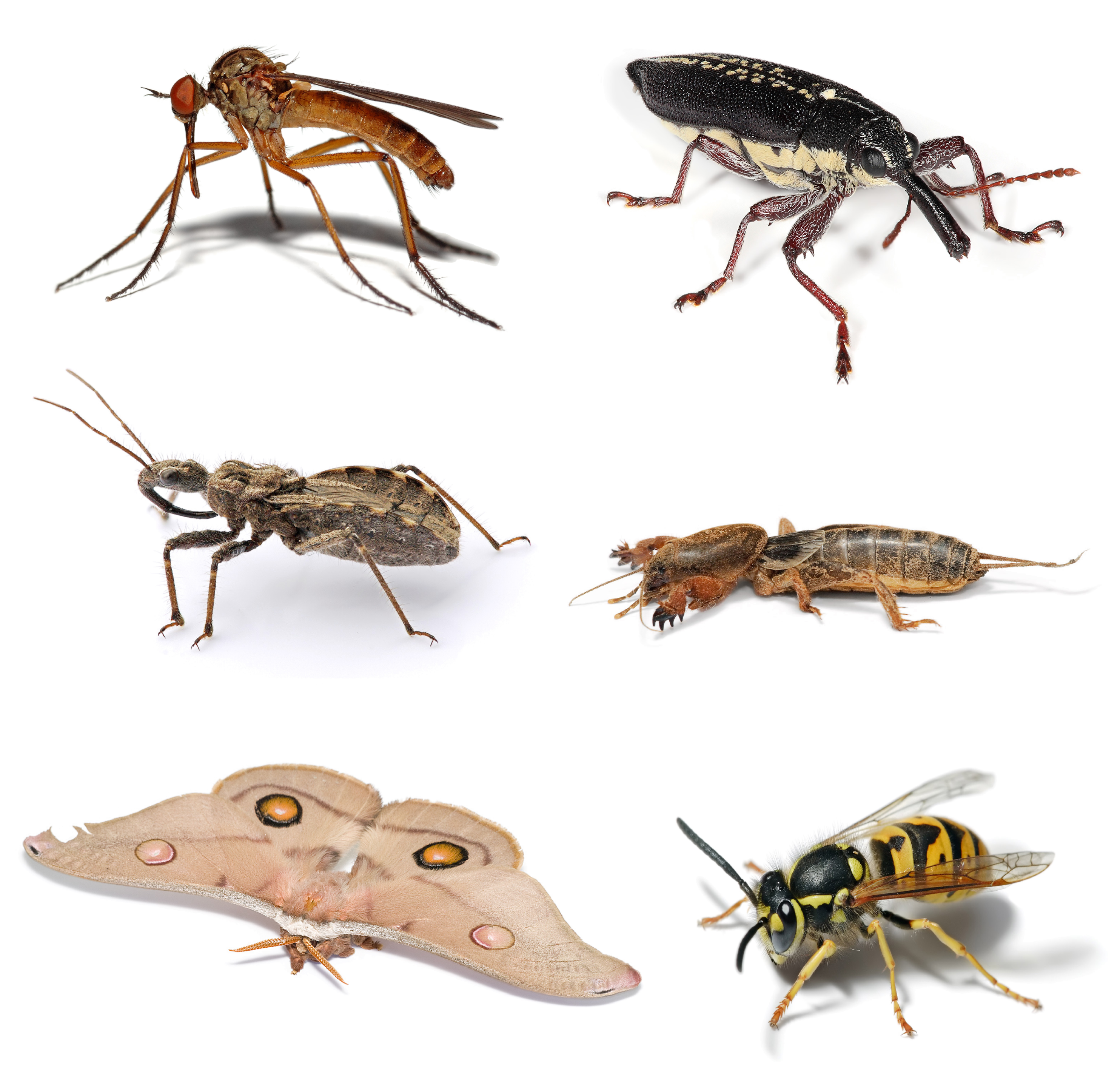 Collage showing the diversity of insect species. Insect species ordered from top left to bottom right: Long dance fly (Empis livida) Long Nosed Weevil (Rhinotia hemistictus) Assassin bug in the family Reduviidae sub-family Harpactocorinae Mole Cricket (Gryllotalpa brachyptera) Emperor gum moth (Opodiphthera eucalypti) European Wasp (Vespula germanica)